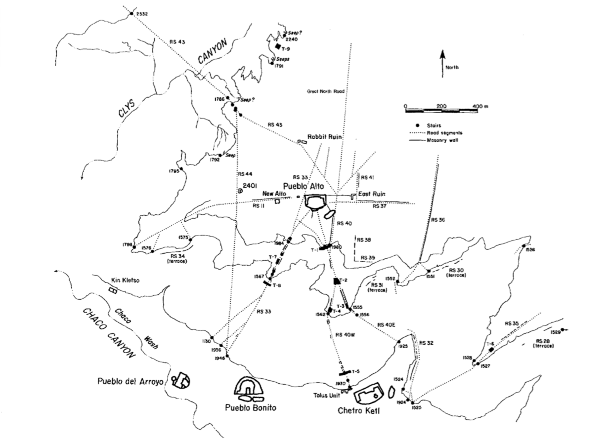 A National Park Service map of the road network around the Pueblo Alto community.